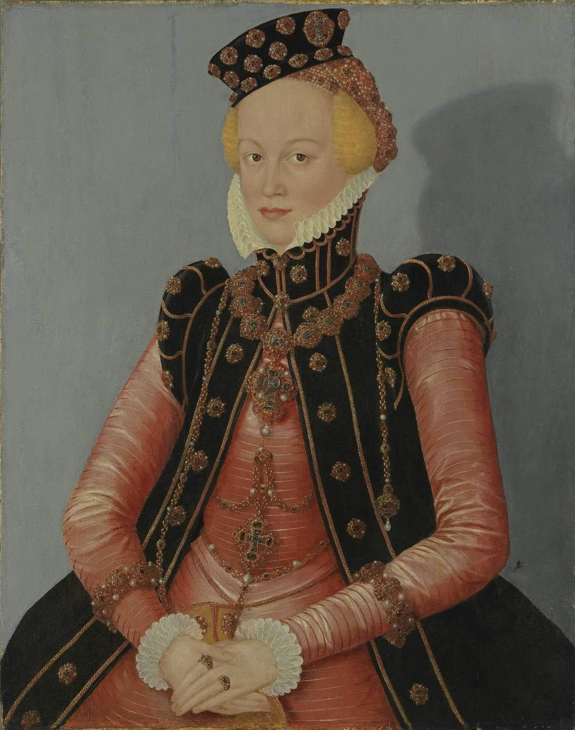 This picture inspired a picture by Pablo Picasso: "Portrait de Jeune Fille, d'apres Cranach le Jeune" (1958).